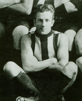 Photograph of Charlie Pannam from 1917-1922